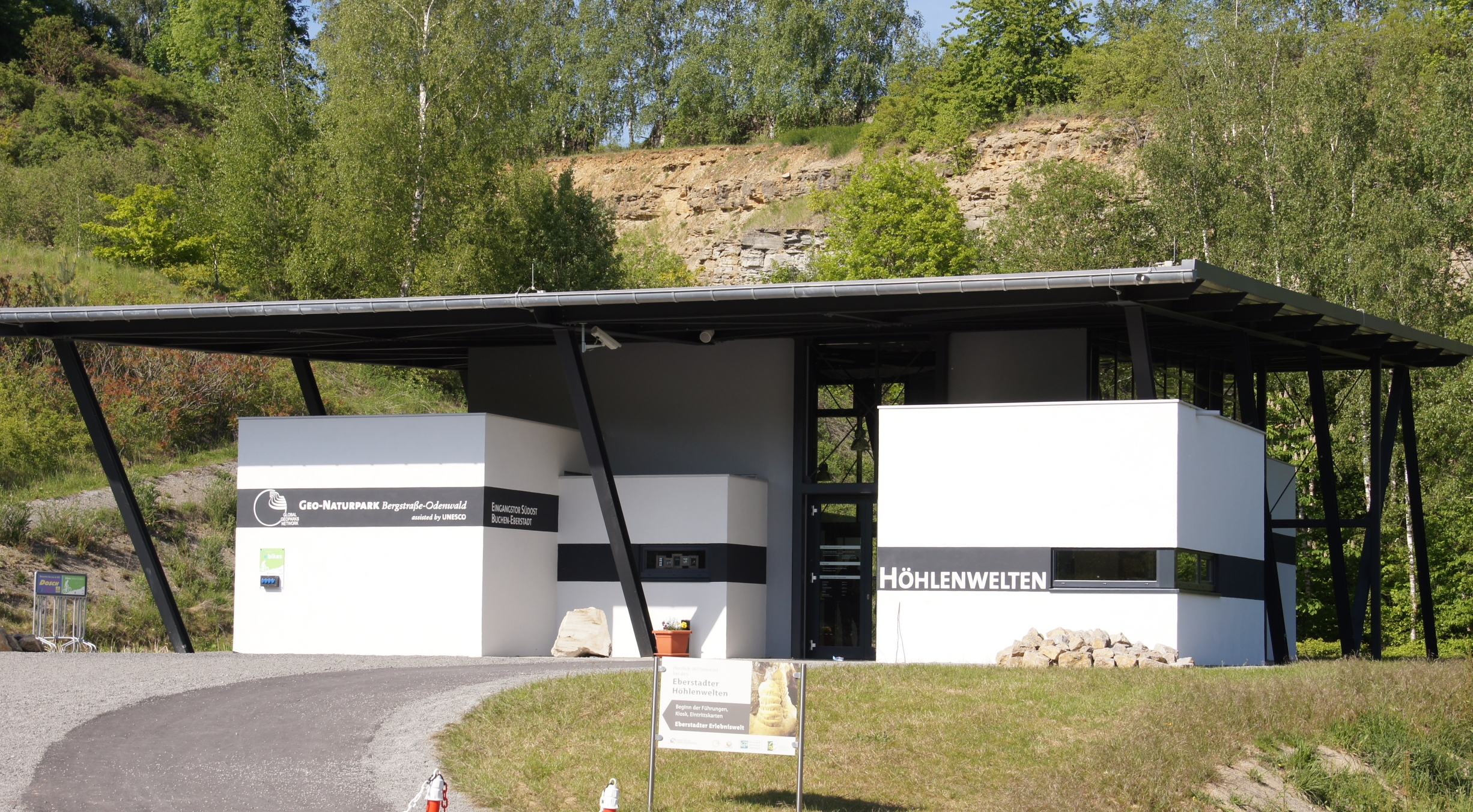 stalactite cave Eberstadt: vistor center